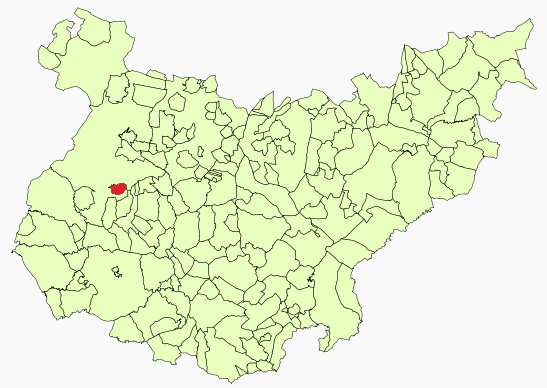 La Albuera